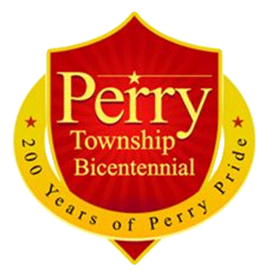 Logo for the Perry Township, Stark County, Ohio bicentennial